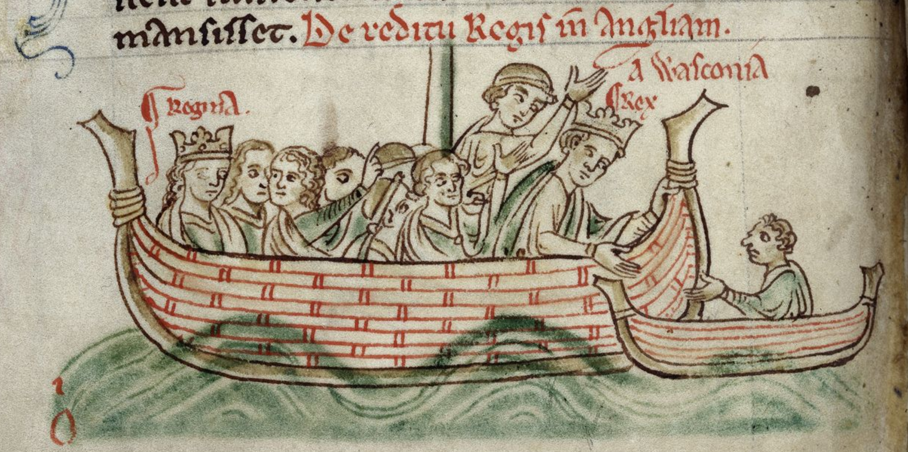 Illumination by Matthew Paris in Chronica Majora (Royal 14 C VII f. 134v) depicting King Henry III and Queen Eleanor returning by sea from Gascony in 1243, with Nicholas de Moels, Seneschal of Gascony, in a small boat alongside. Source of caption